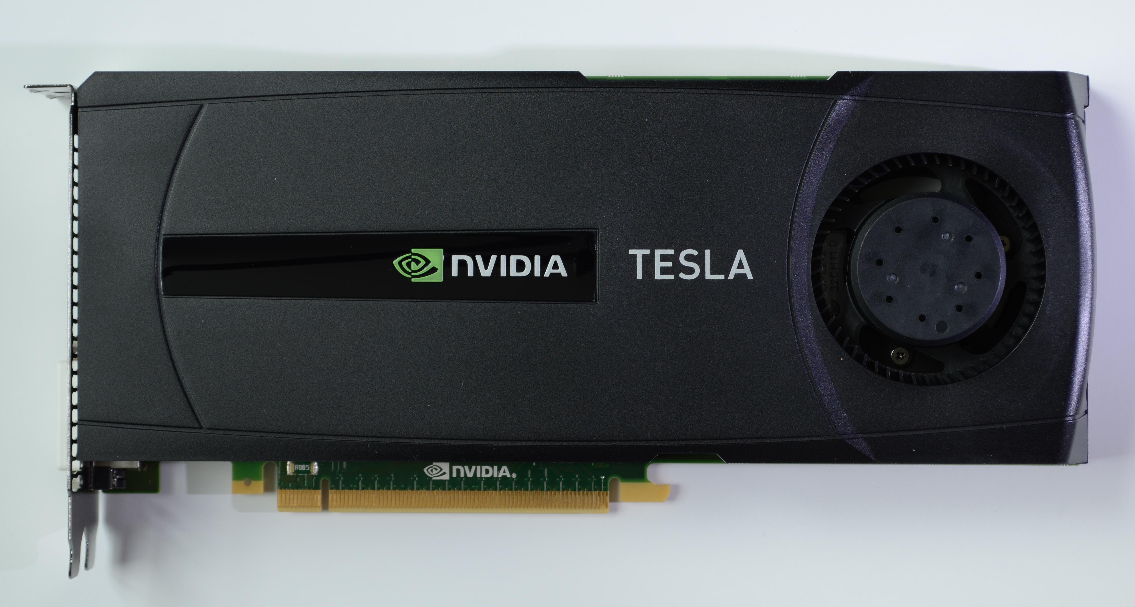 Nvidia Tesla 2075